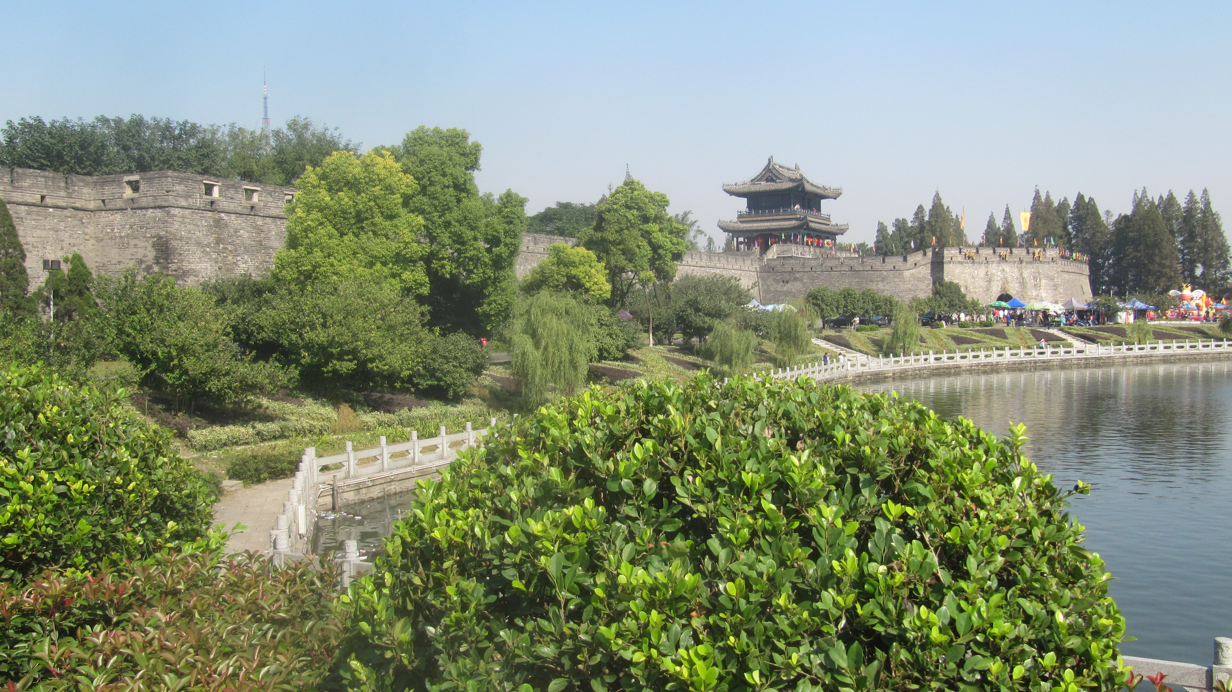 This is the East external side of Jingzhou old city wall, Hubei Province, China.